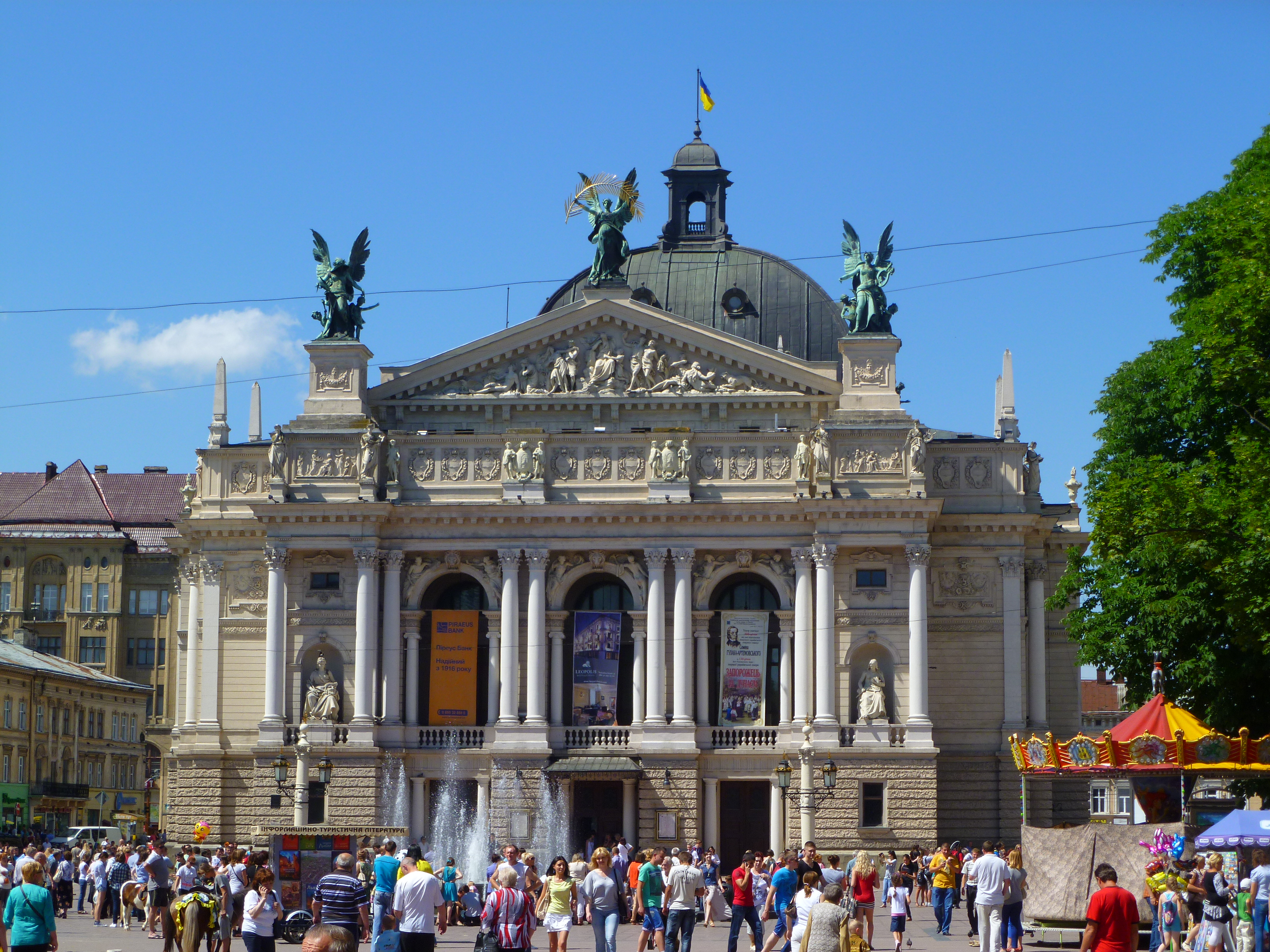 Lviv Opera and Balet Theatre